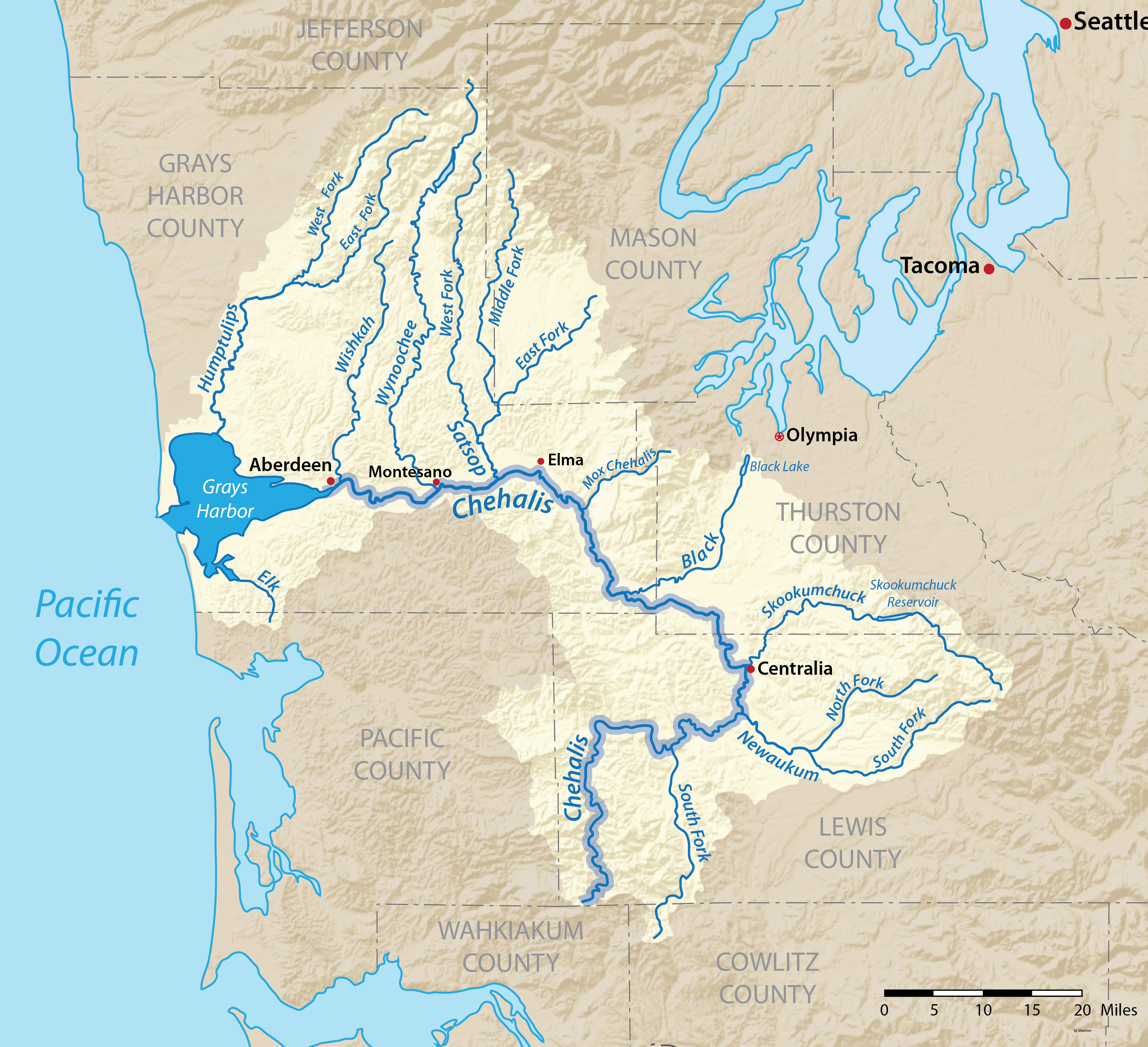 Map of the Chehalis River watershed in Washington, USA. Created based on USGS National Map data.